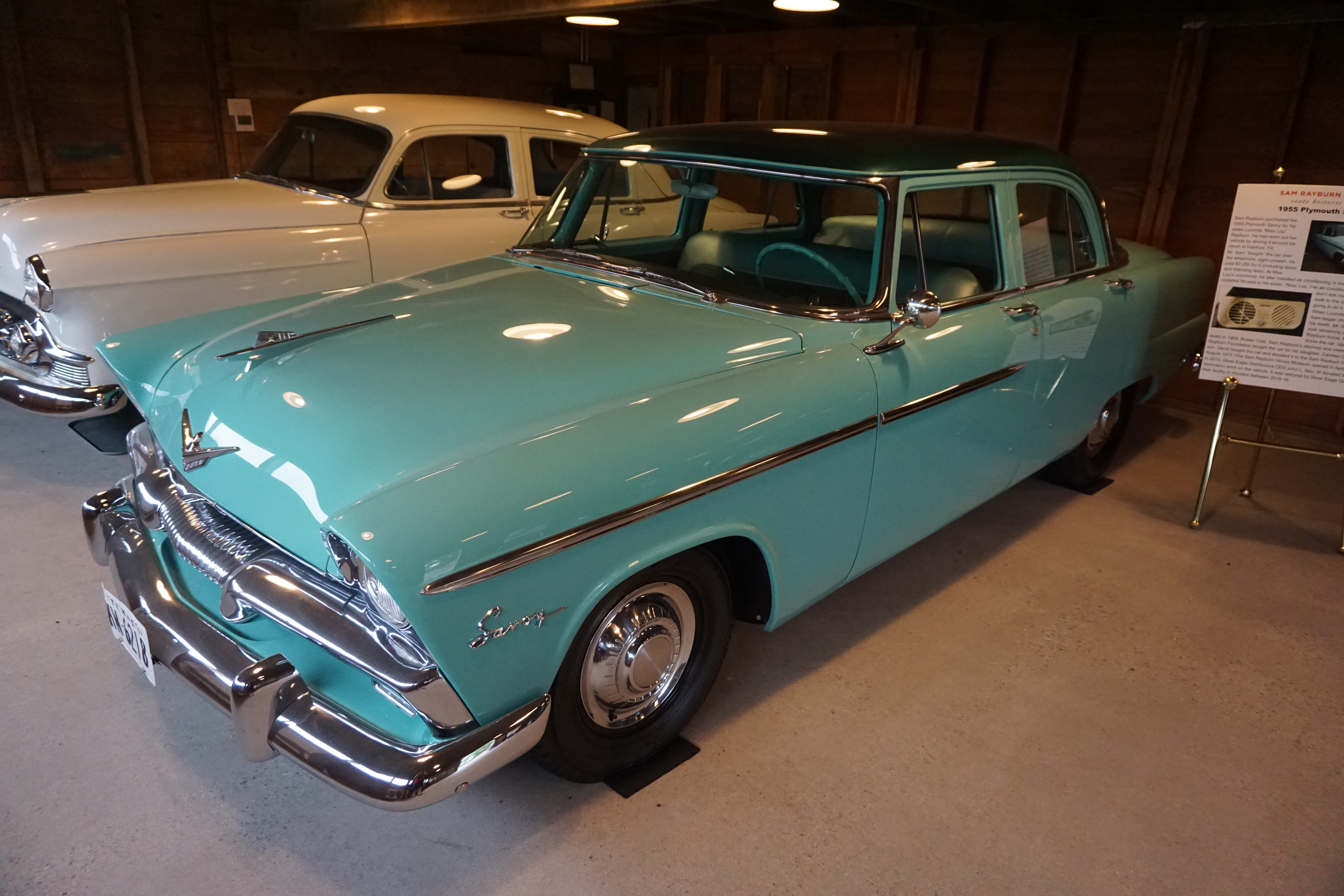 Lucinda and Sam Rayburn's 1955 Plymouth Savoy at the Sam Rayburn House Museum in Bonham, Texas (United States).